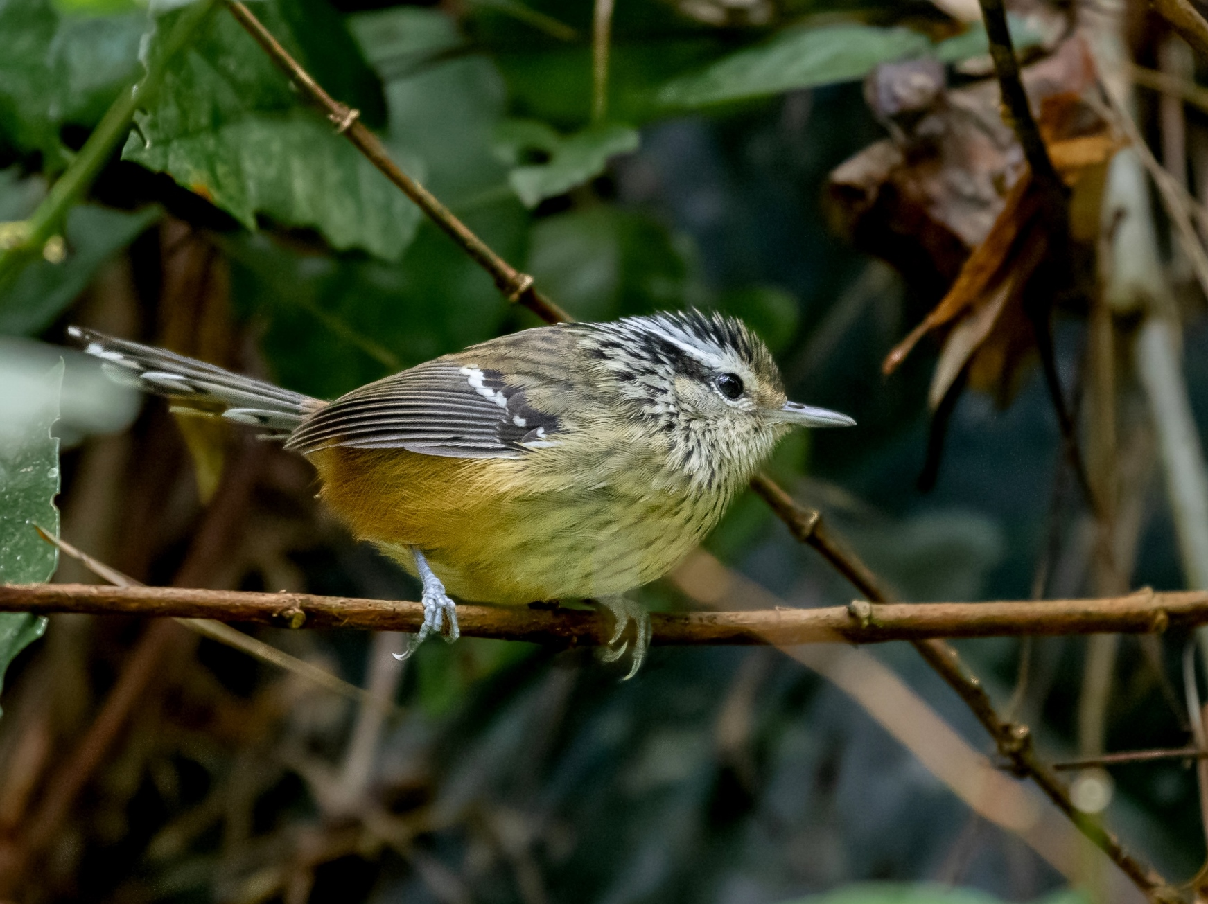 Ochre-rumped Antbird (female); Monteiro Lobato; São Paulo, Brazil